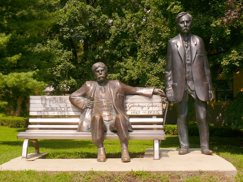 Statues of Hungarian writers Sándor Bródy and Géza Gárdonyi in Eger